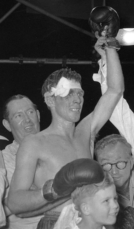 Australian boxer Jimmy Carruthers after the second defence of his World Bantamweight title against Henry Pappy Gualt. Carruthers won a 15 round points decision Sydney Stadium, 13 November 1953. SMH Picture by HARRY MARTIN